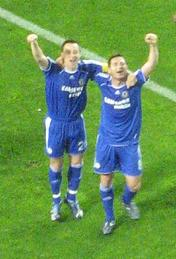 Frank Lampard and John Terry